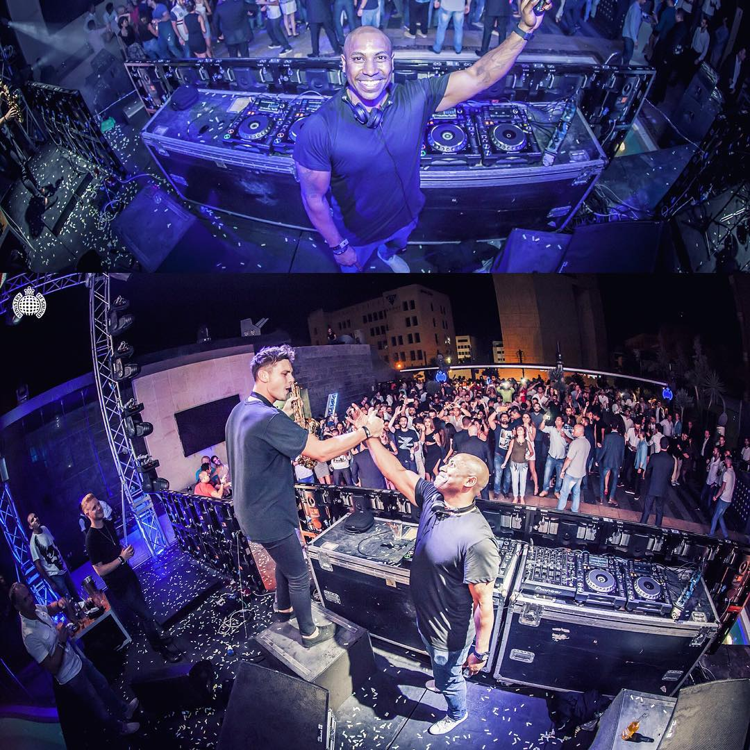 Ministry of Sound VIP Launch Party with DJ Colin Francis